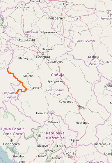 OpenStreetMap of State Road 28 in Serbia.